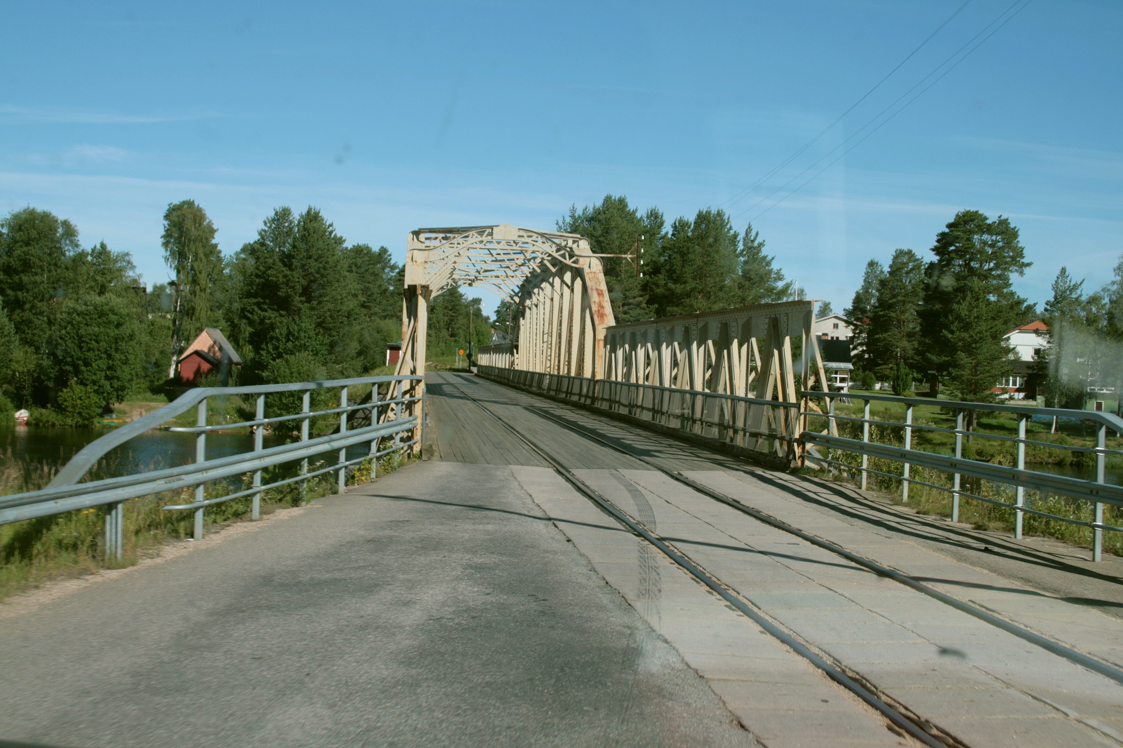 Mankellbron, a combined road- and railway bridge in Sveg, Sweden